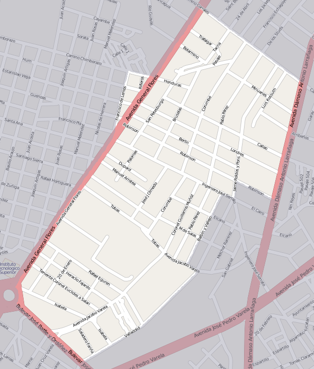 Street map of Castro Castellanos, Montevideo, exported from OpenStreetMap. I added shading to delimit the barrio. This map may be incomplete, and may contain errors. Don't rely solely on it for navigation.